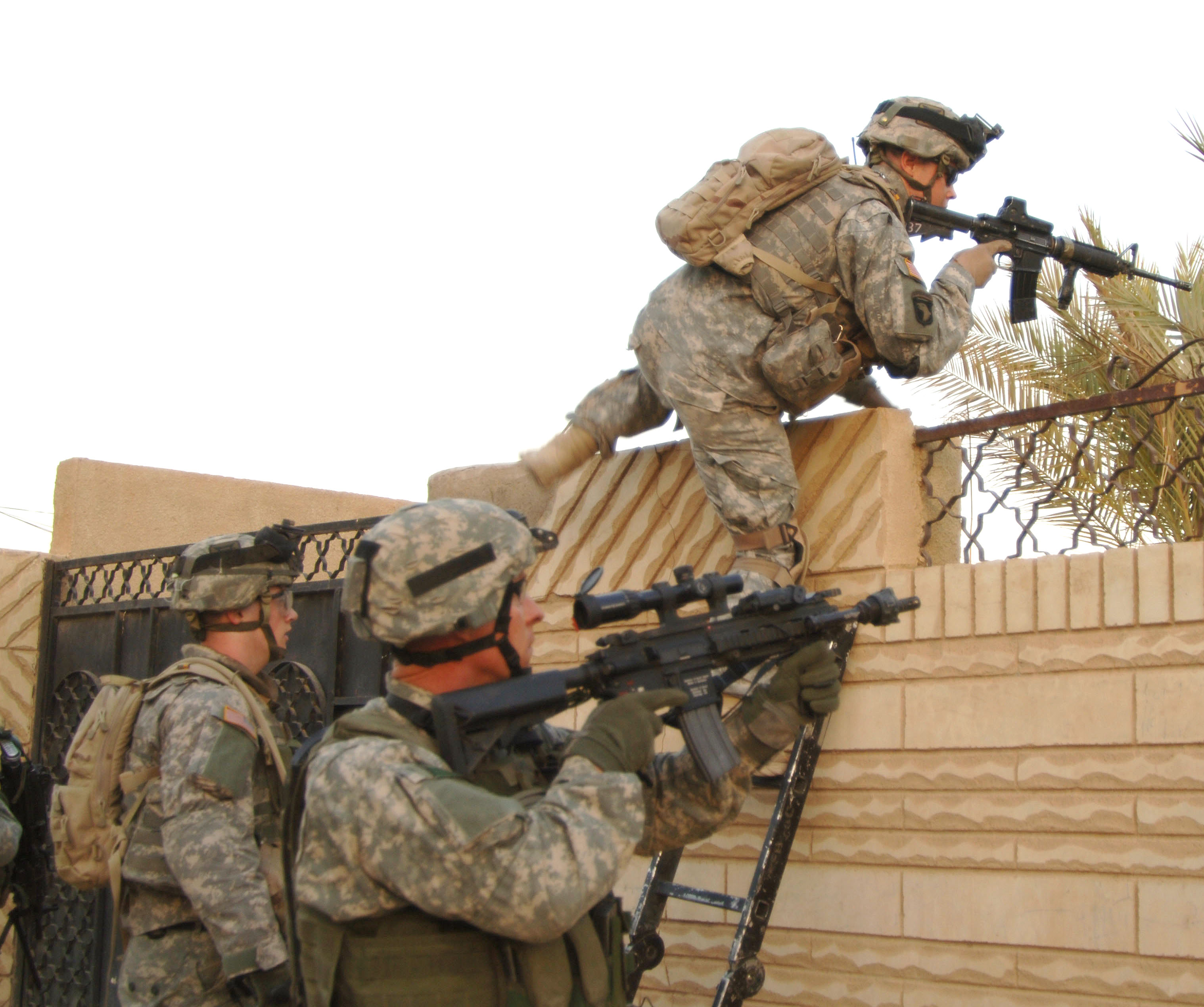 Soldiers from the 101st Airborne Division conduct a raid in Samaria, Iraq.